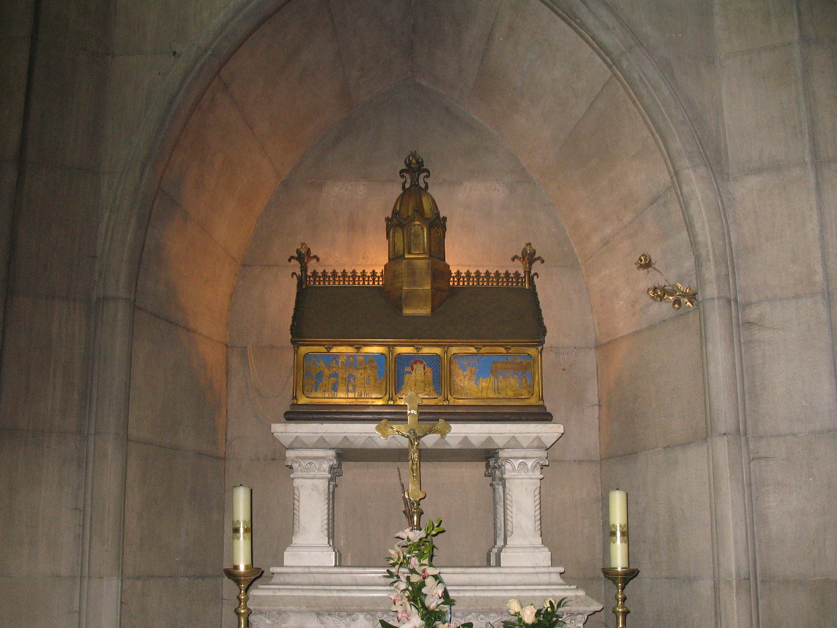 Reliquary of Jolenta of Poland. Franciscan church in Gniezno